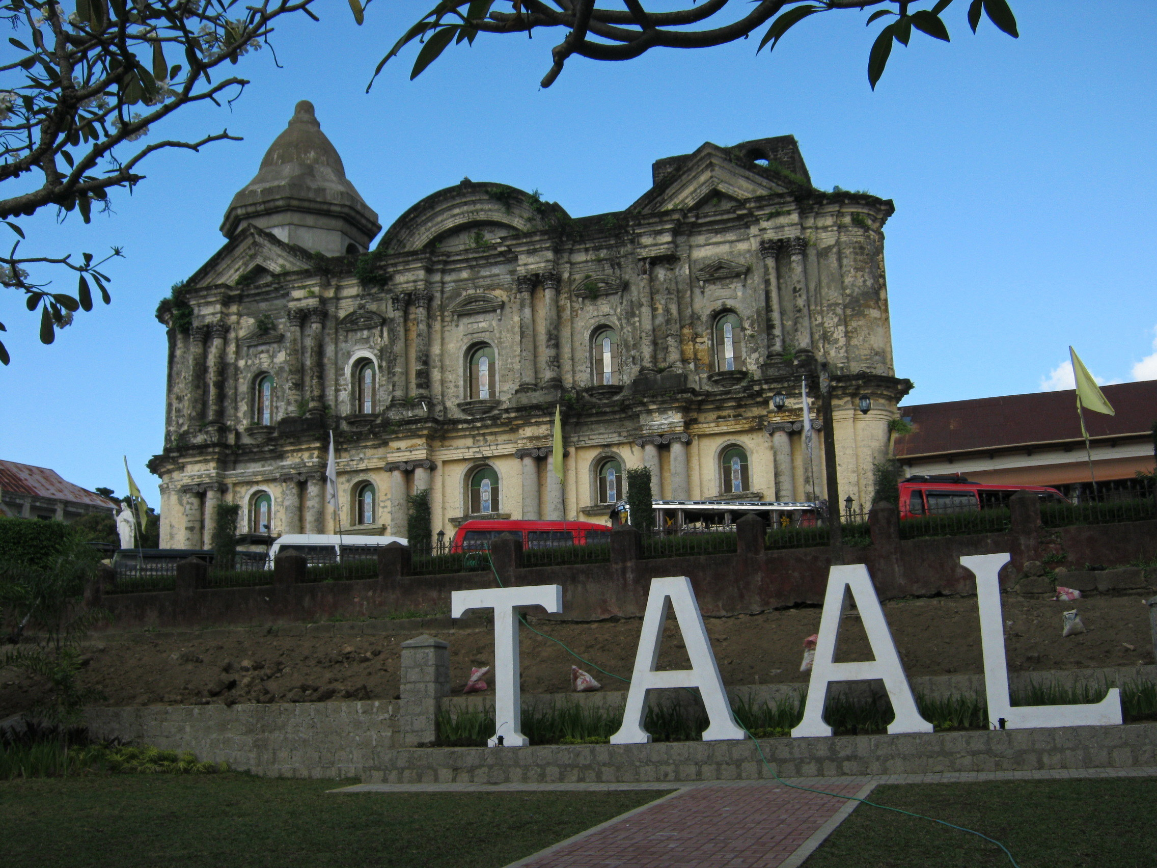 Taal, Batangas sign in Taal Park